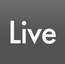 Logo of Ableton Live 9